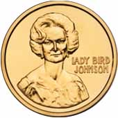 Bronze duplicate of Lady Bird Johnson Congressional Gold Medal (front)